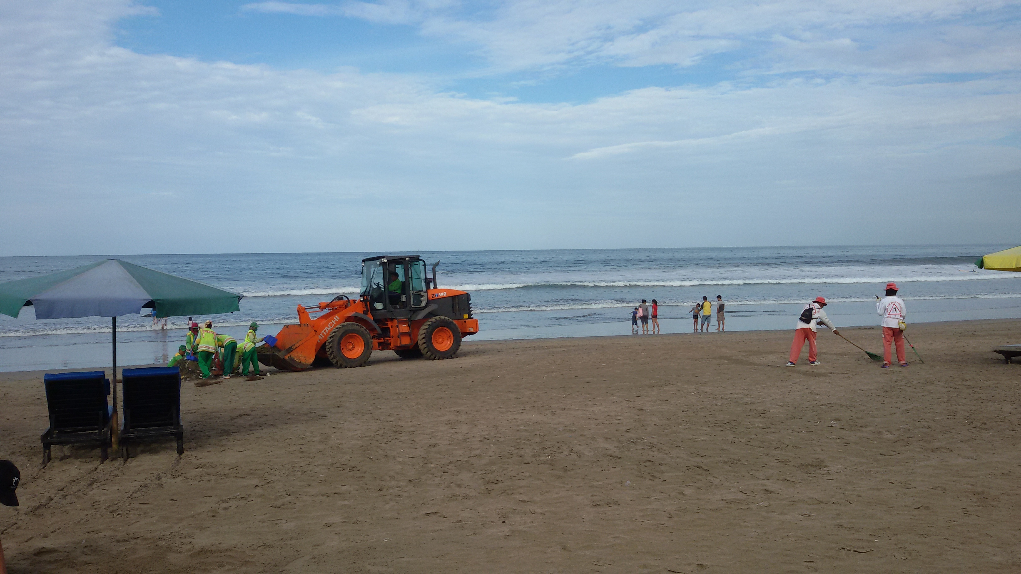 Kuta beach cleaning in the morning